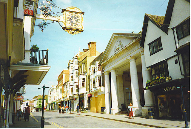 Tunsgate Arch, Guildford High Street. A quiet Sunday in the days before Sunday shopping became the norm. Tunsgate takes its name from an old pub and housed the Corn Exchange. The overhanging Guild Hall clock is dated 1683.